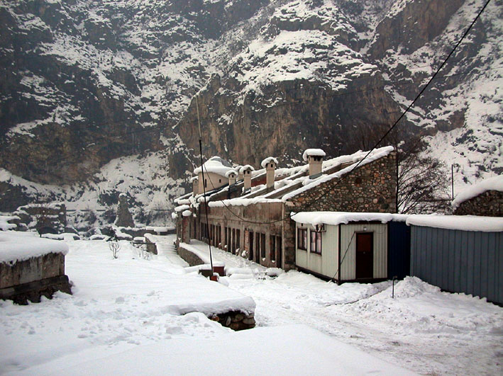 Monastery of the Holy Archangels - author Nikostrat Saronic